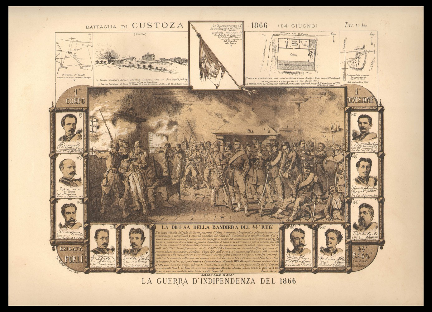 Italian flag defense at Custoza battle